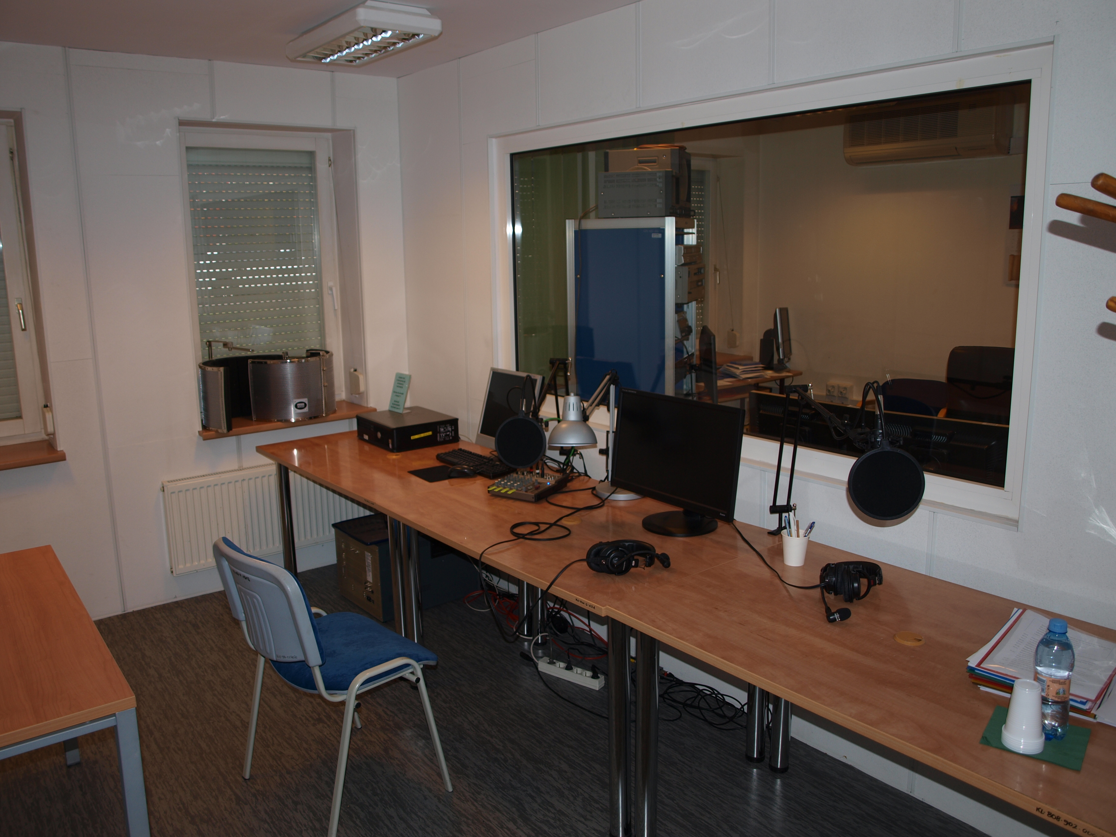 Recording Studio Television Academy